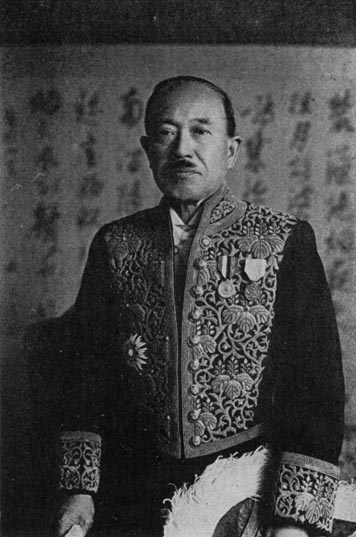 Hirotarō Nishida, current director of the Kiryu Higher Technical School.